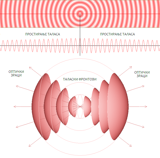 СВЕТЛОСНИ ТАЛАС И ТАЛАСНИ ФРОНТ